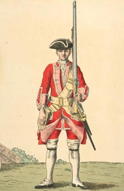 Soldier of the 22st regiment (1742)